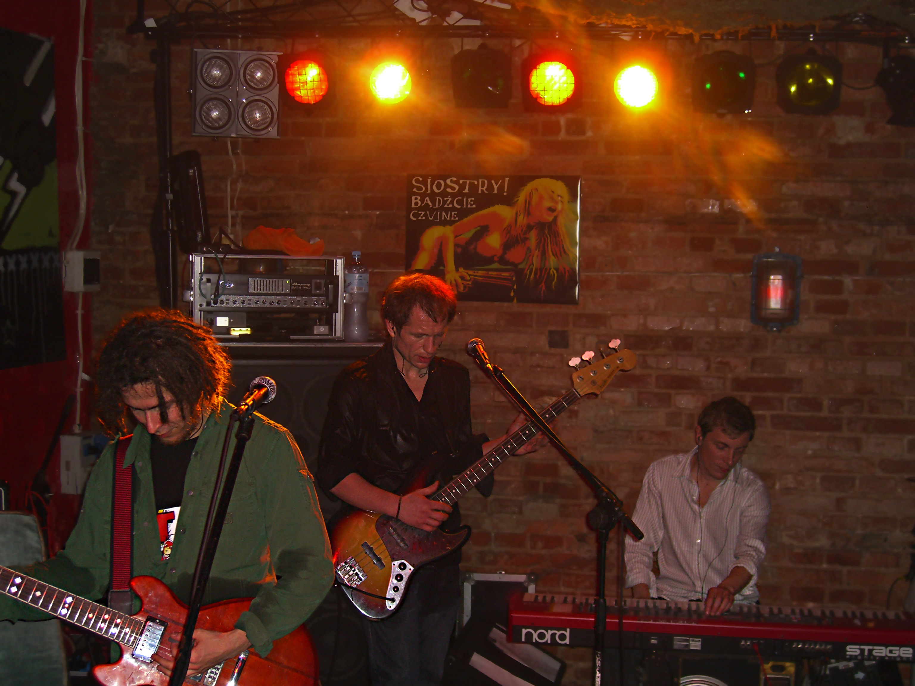 Jan "Jahlove" Pęczak, Paweł "Nazim" Nazimek i Michał Marecki at T.Love's concert in Częstochowa